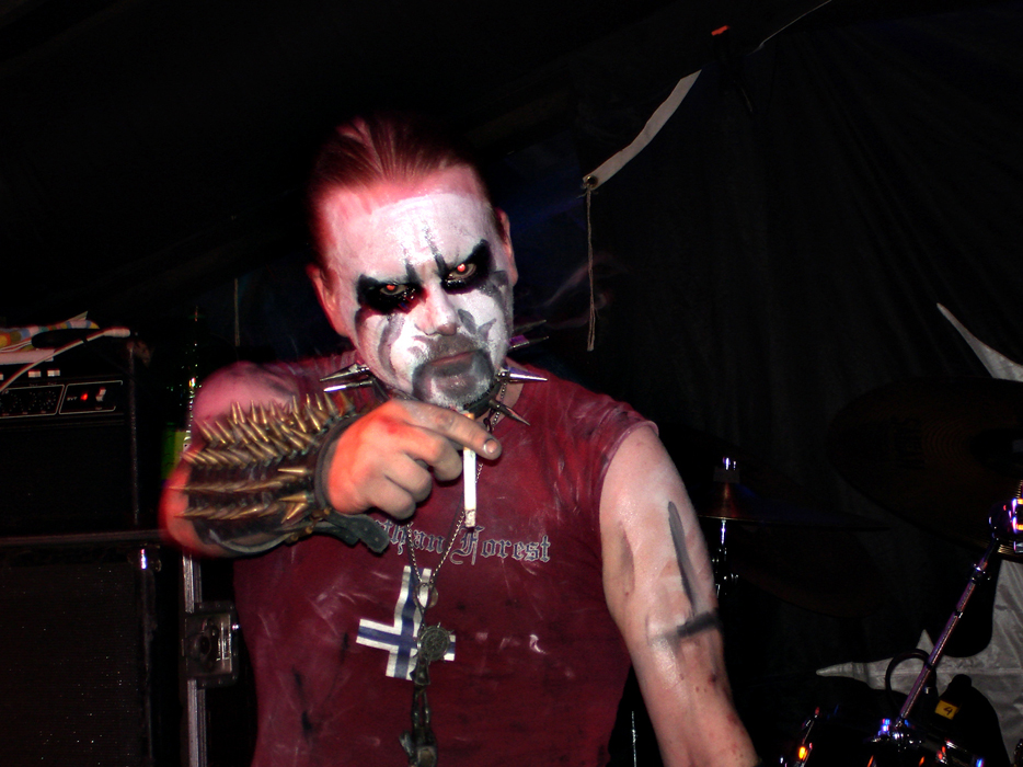 Carpathian Forest live in Ludwigsburg, 2006